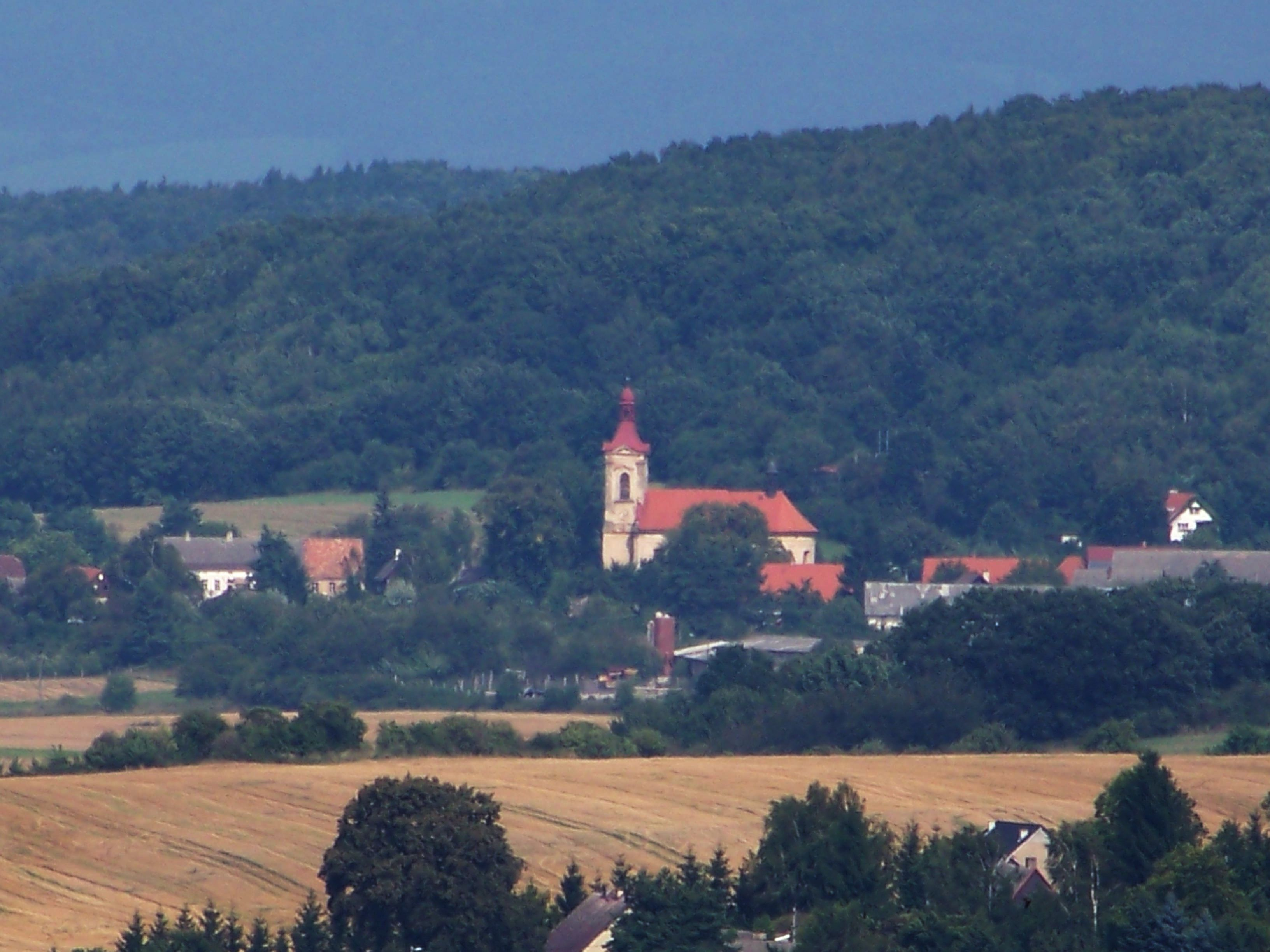 Chlum, Česká Lípa District, Liberec Region, Czech Republic. Saint George Church, seen from Vysoký vrch.